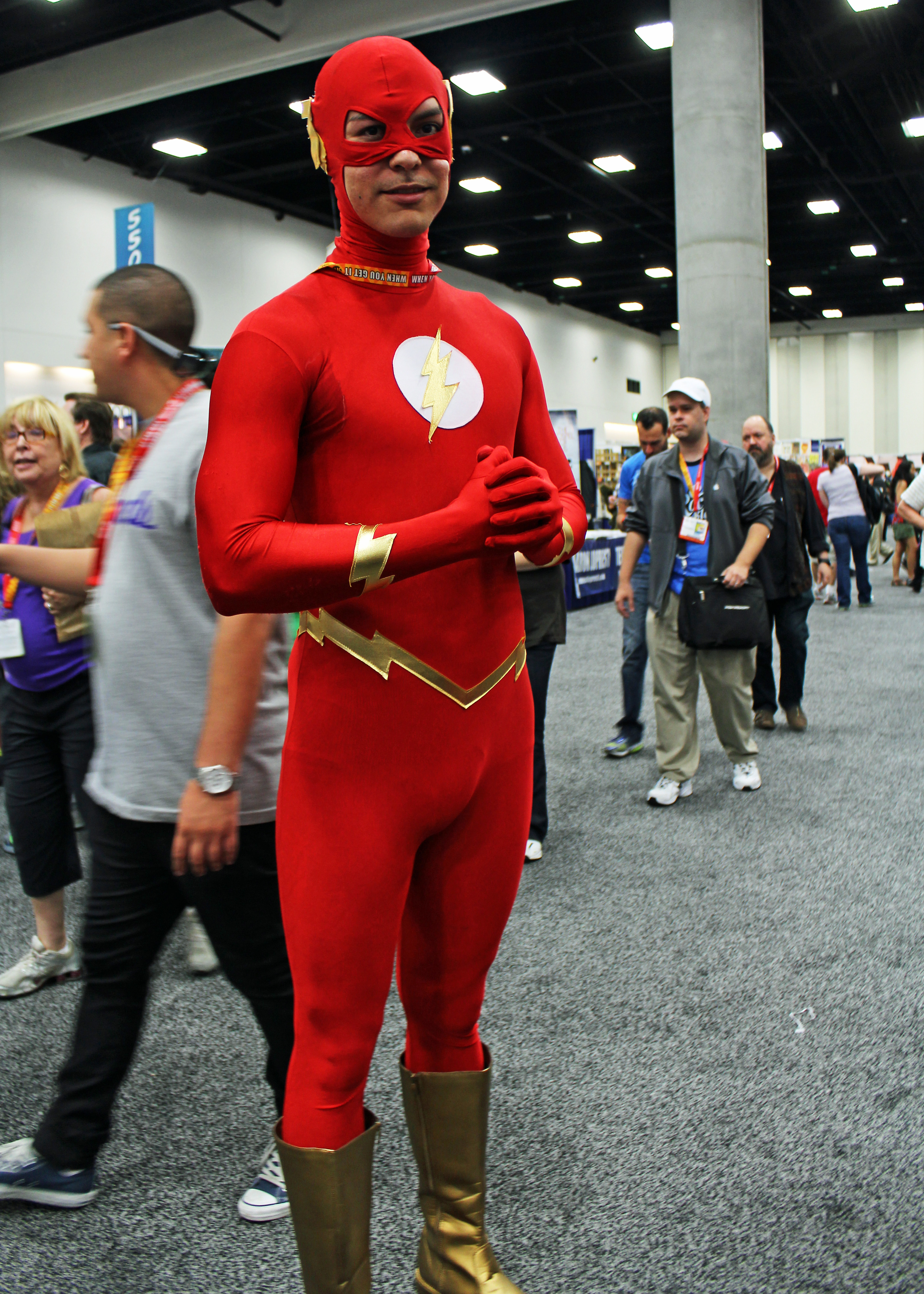 A cosplayer as DC Comics character the Flash at San Diego Comic-Con 2012.